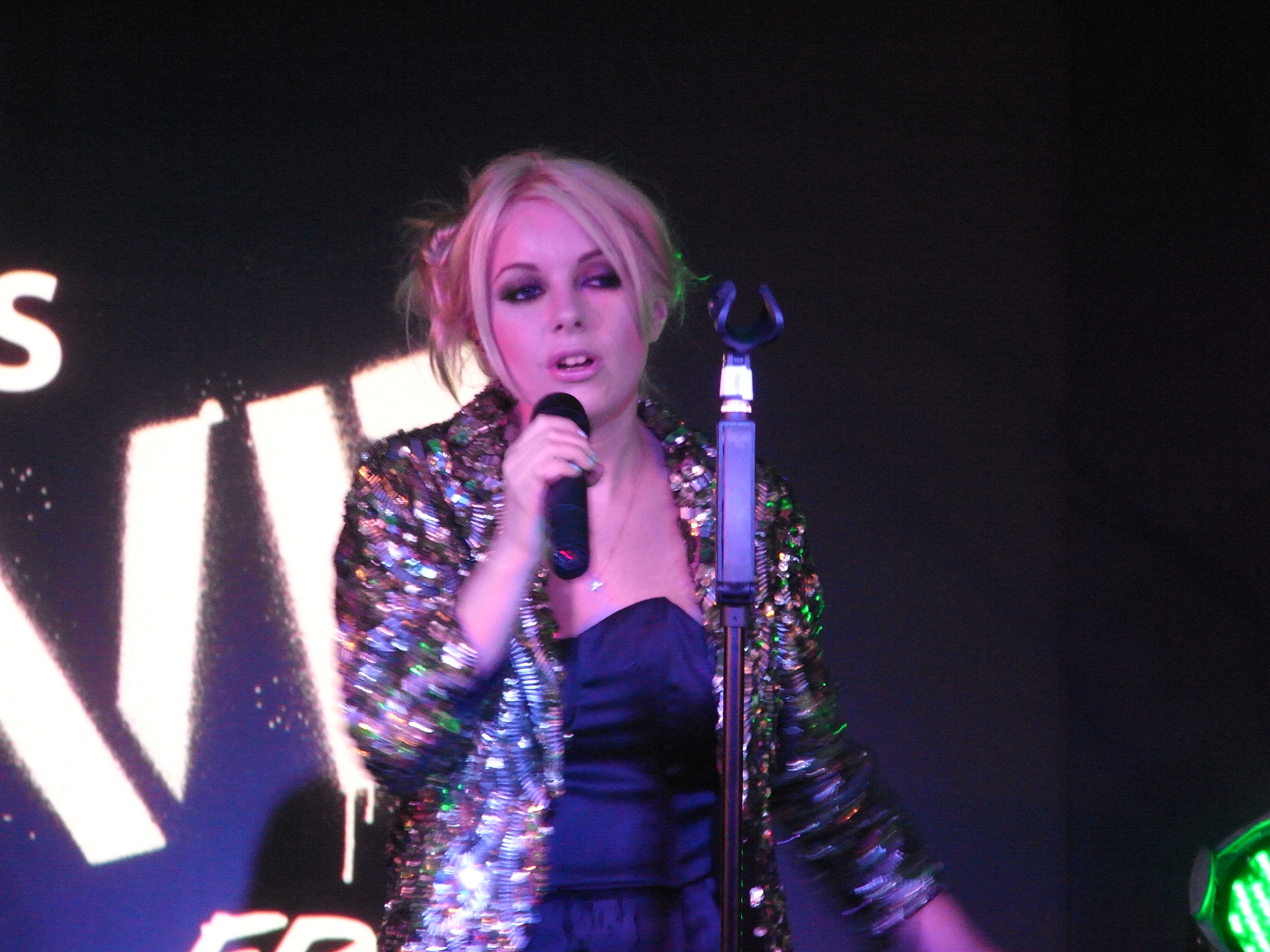 Little Boots performing in London